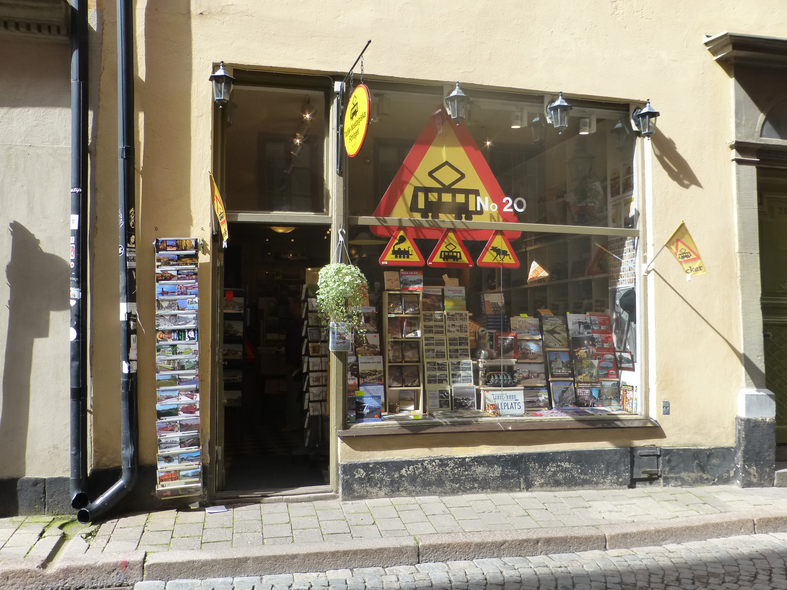 The shop and publisher Trafik-Nostalgiska Förlaget at Österlånggatan in Stockholm. They have specialised in books and dvd's about public transport.